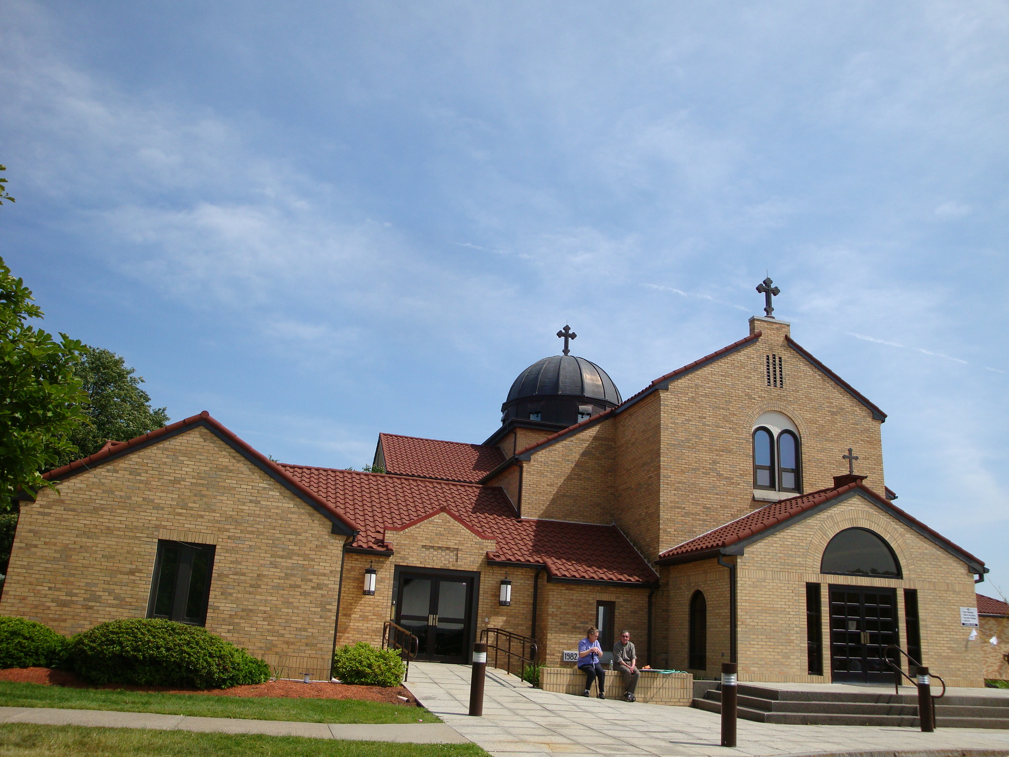 Picture of church exterior Front